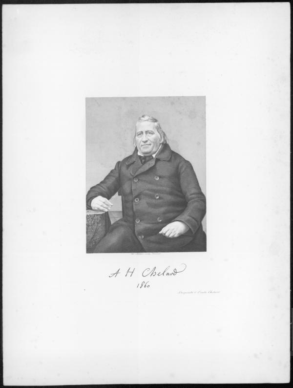 André Hippolyte Jean Baptiste Chelard (1789 - 1861)